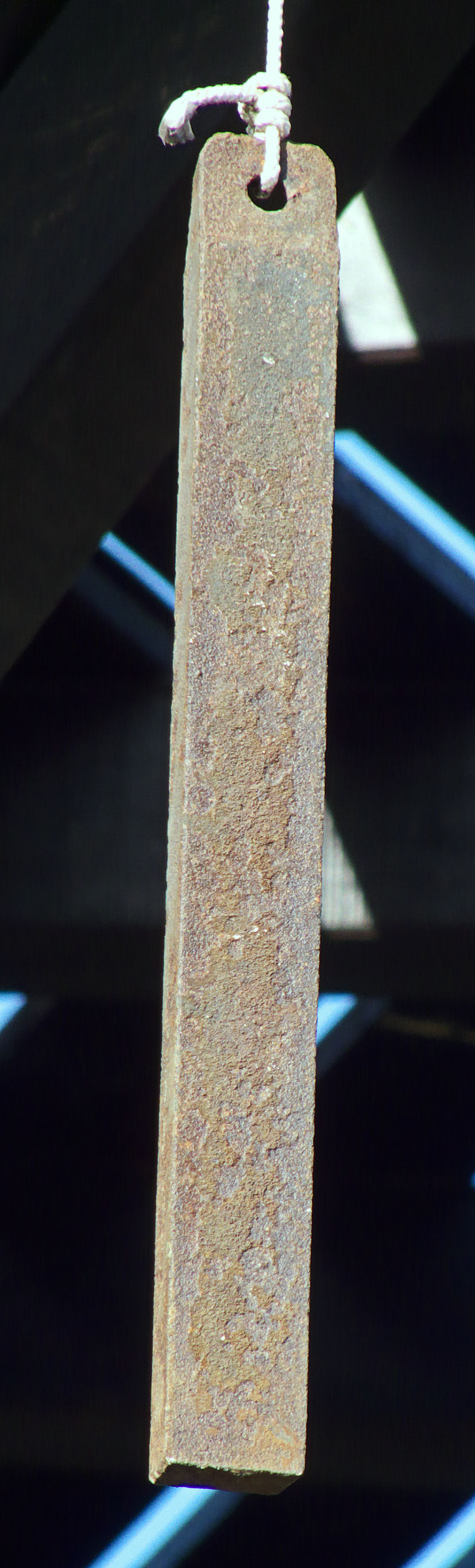 Window, Counterweight